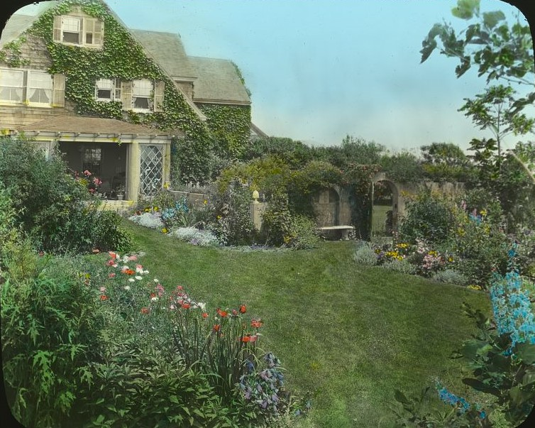 Title ["Gray Gardens," Robert Carmer Hill house, Lily Pond Lane, East Hampton, New York. Pathway to sun room] Contributor Names Johnston, Frances Benjamin, 1864-1952, photographer Hewitt, Mattie Edwards, 1869-1956, photographer Created / Published [ca. 1916] Subject Headings - Gardens--New York (State)--East Hampton--1910-1920 - Flowers--New York (State)--East Hampton--1910-1920 - Houses--New York (State)--East Hampton--1910-1920 Format Headings Lantern slides--Hand-colored--1910-1920. Notes - Site History. House Architecture: Joseph Greenleaf Thorp, 1897. Landscape Associated Name: Anna Gilman (Mrs. Robert C.) Hill. Other: Robert C. Hill acquired the house and four acres and half in 1913; Edith Bouvier Beale owned this house, now known as "Grey Gardens, from the 1920s. Today: House extant and the garden restored. - On slide (handwritten): "Hill." - Photographed when Frances Benjamin Johnston and Mattie Edwards Hewitt worked together. - Title, date, and subject information provided by Sam Watters, 2011. - Forms part of: Garden and historic house lecture series in the Frances Benjamin Johnston Collection (Library of Congress). - Formerly in Box 52. Medium 1 photograph : glass lantern slide, hand-colored ; 3.25 x 4 in. Call Number/Physical Location LC-J717-X100- 62 [P&P] Repository Library of Congress Prints and Photographs Division Washington, D.C. 20540 USA Digital Id ppmsca 16271 //hdl.loc.gov/loc.pnp/ppmsca.16271 Library of Congress Control Number 2007685962 Reproduction Number LC-DIG-ppmsca-16271 (digital file from original item) Rights Advisory No known restrictions on publication. Online Format image Description 1 photograph : glass lantern slide, hand-colored ; 3.25 x 4 in. LCCN Permalink